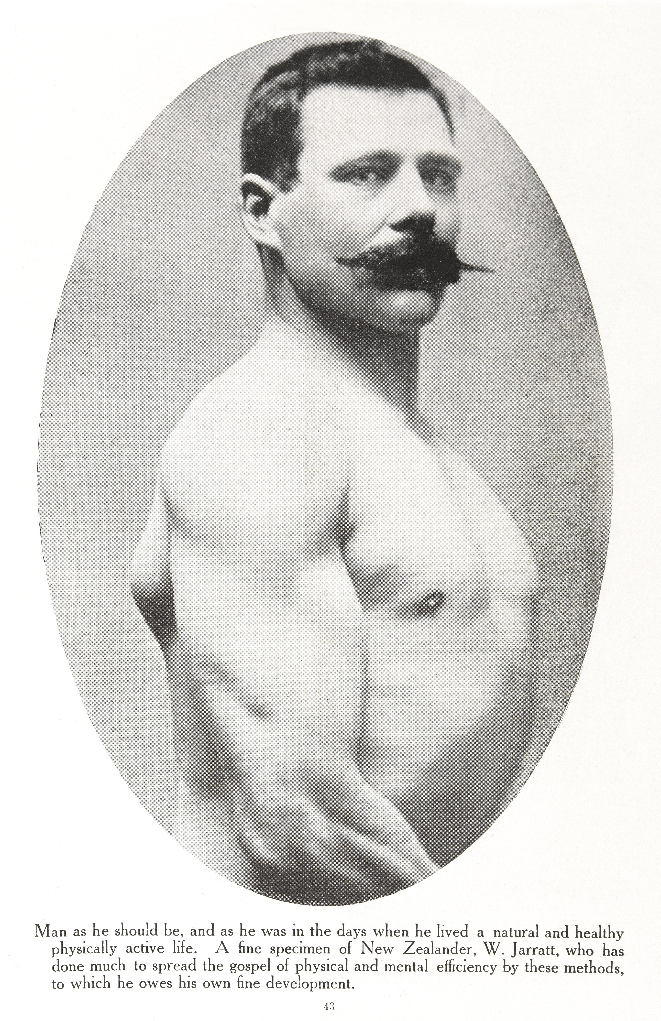 Man as he should be, and as he was in the days when he lived a natural and healthy physically active life. A fine specimen of New Zealander, W. Jarratt, who has done much to spread the gosple of physical and mental efficiency by these methods, to which he owes his own fine development General Collections Keywords: Body; Development; Muscles; Nude; Physique; Health; Masculinity; Muscle; Exercise